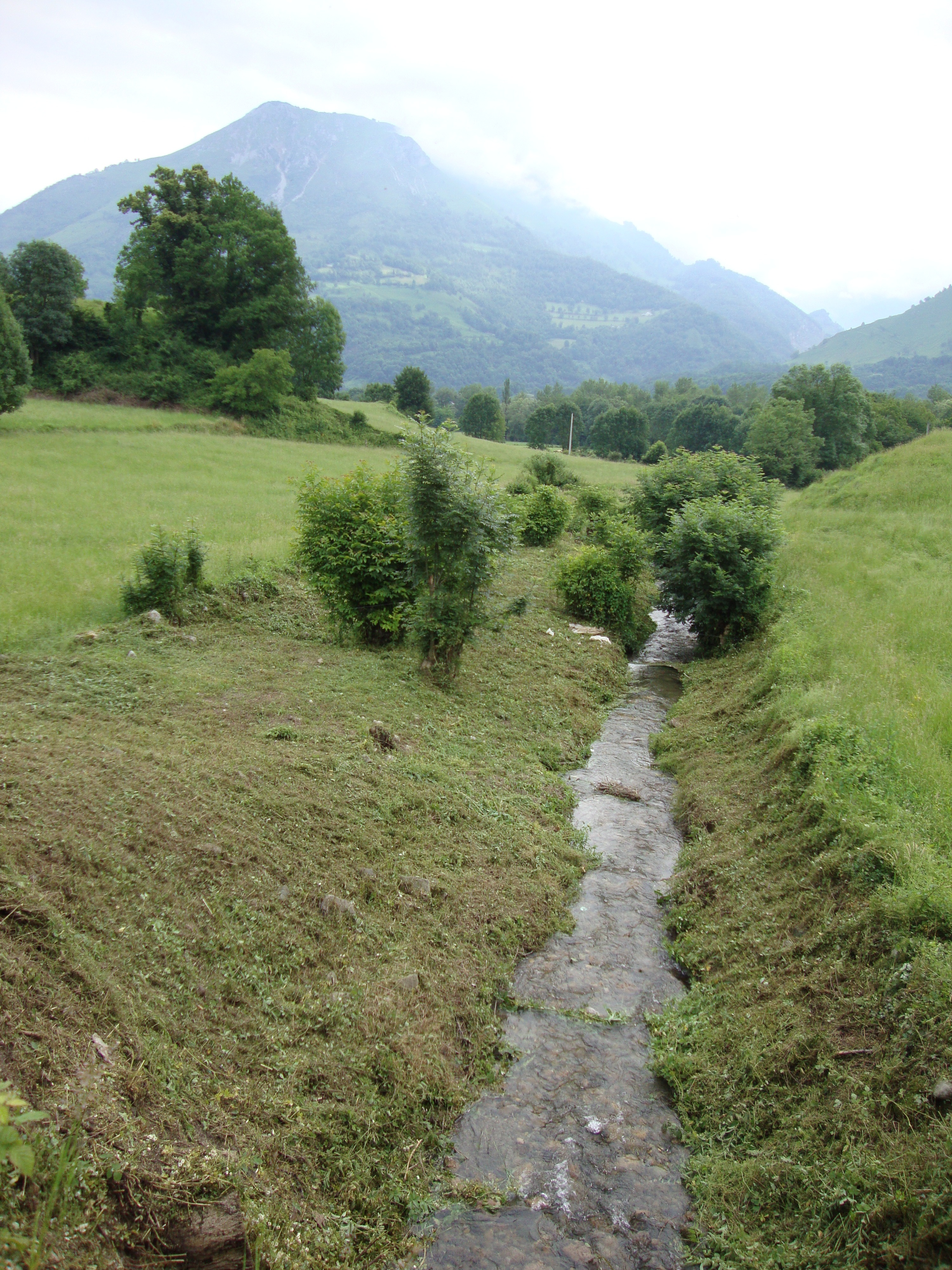 Athas (Lées-Athas, Pyr-Atl, Fr)Malugar (river) and landscape